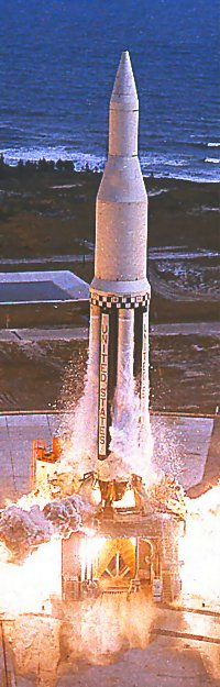 Launch of SA-1